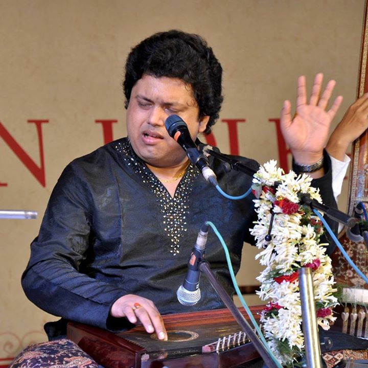 Sandip performing at ITC SRA sammelan 2014 dec